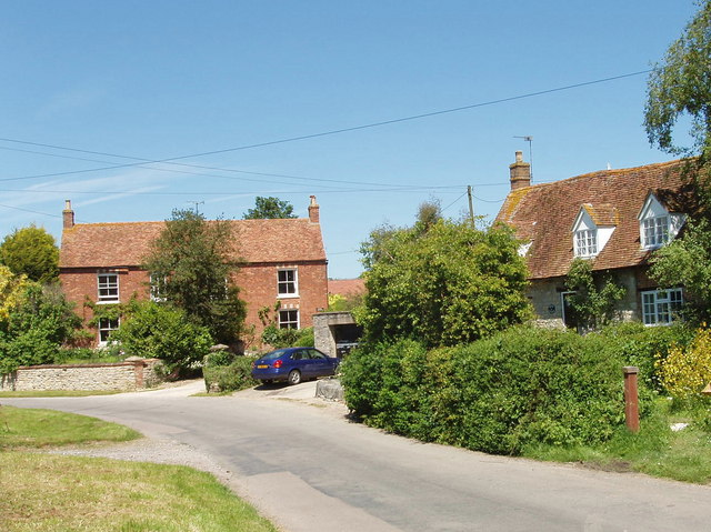 Piddington, Oxfordshire; part of Thame Road, showing Laurell Farm